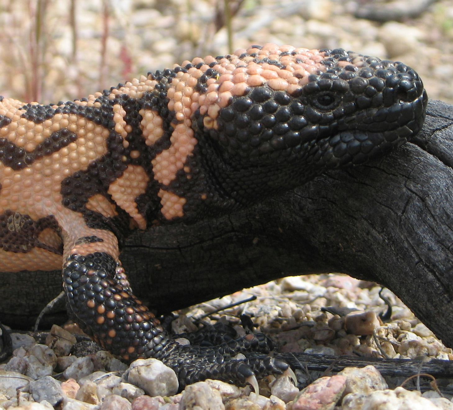 Head of a Gila Monster Heloderma suspectum.